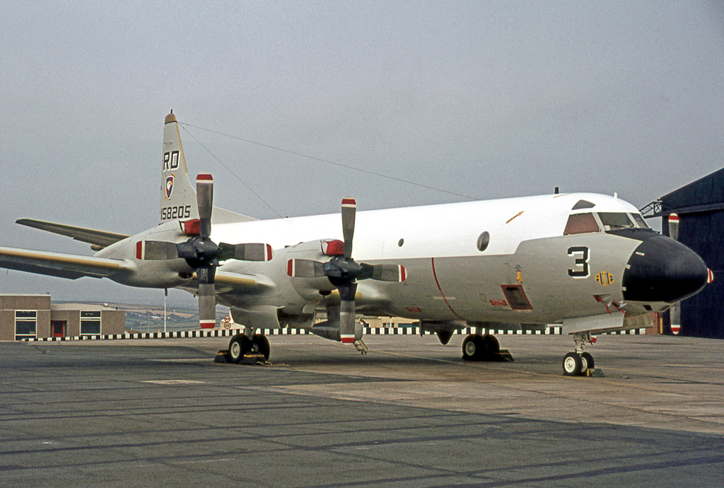 A U.S. Navy Lockheed P-3C Orion (BuNo 158205) of Patrol Squadron 47 (VP-47) at RAF Kinloss, Scotland (UK), in July 1974.